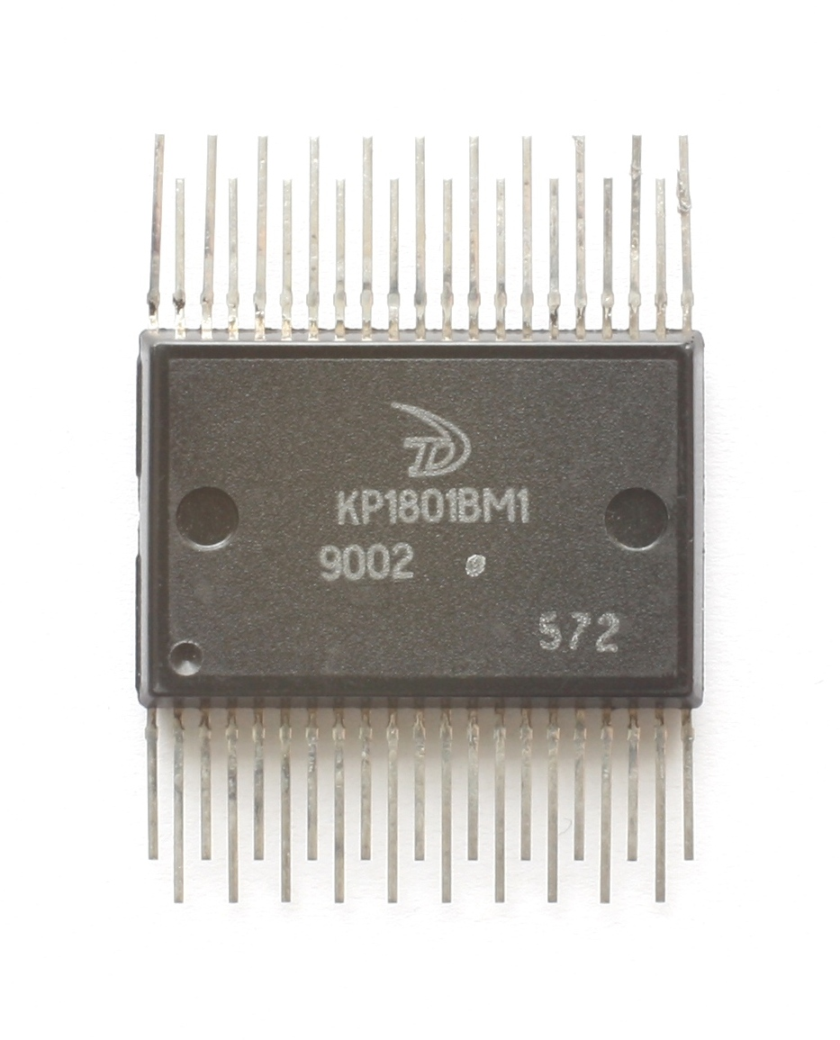 USSR CPU KR1801VM1 Plastic